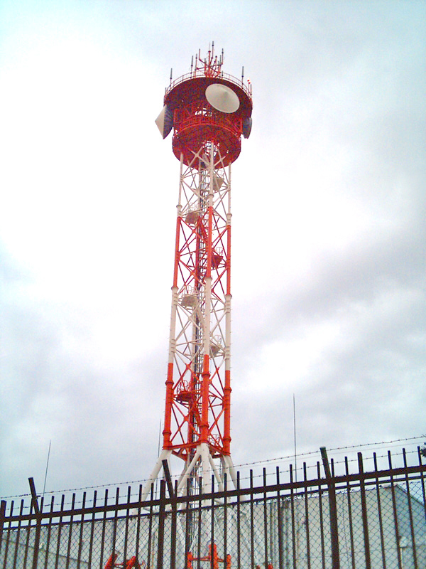 Communications tower for the Tokyo Area Control Center in Tokorozawa, Saitama Prefecture, Japan